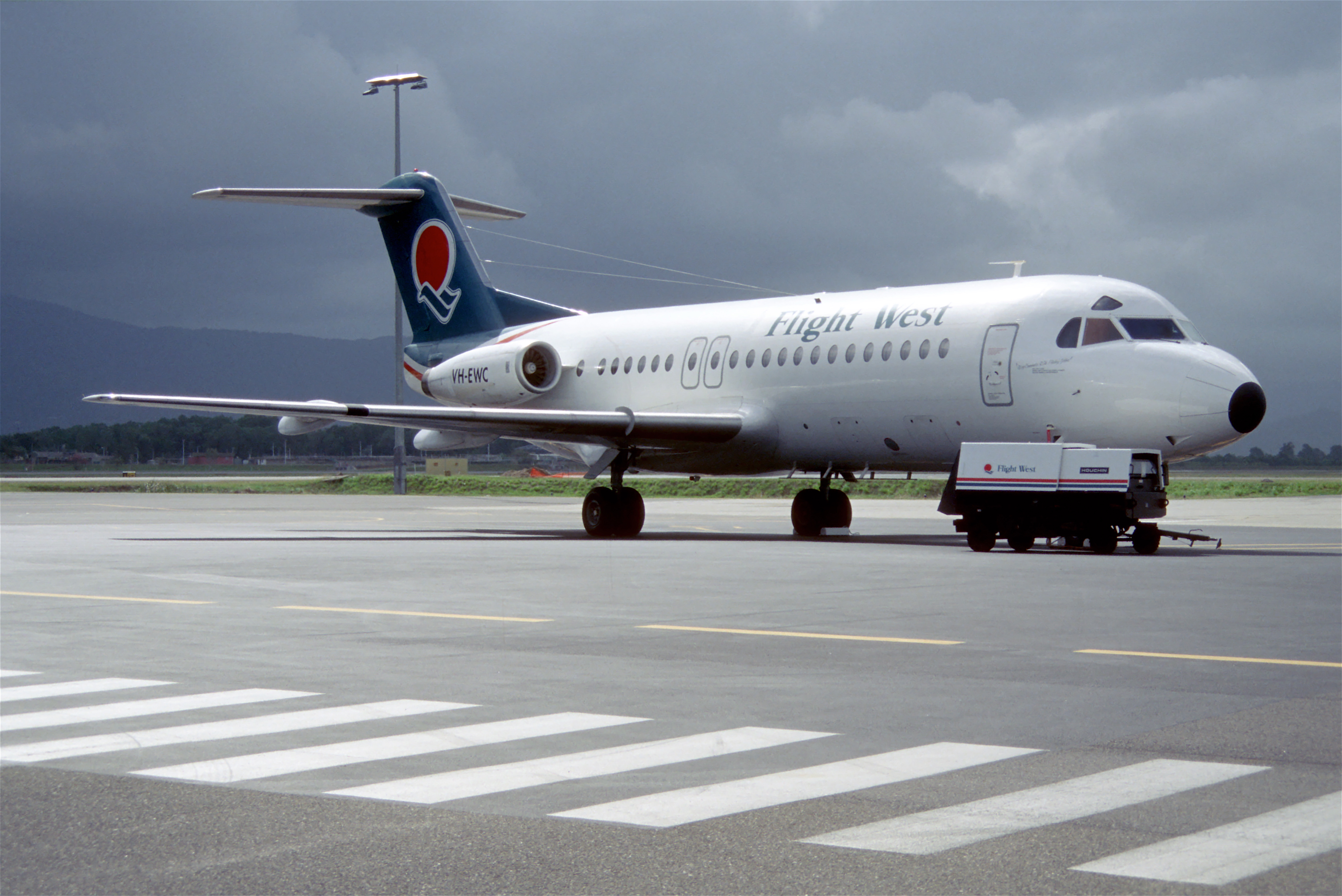 73ak - Flight West Airlines Fokker F28 Fellowship 4000; VH-EWC@CNS;02.10.1999